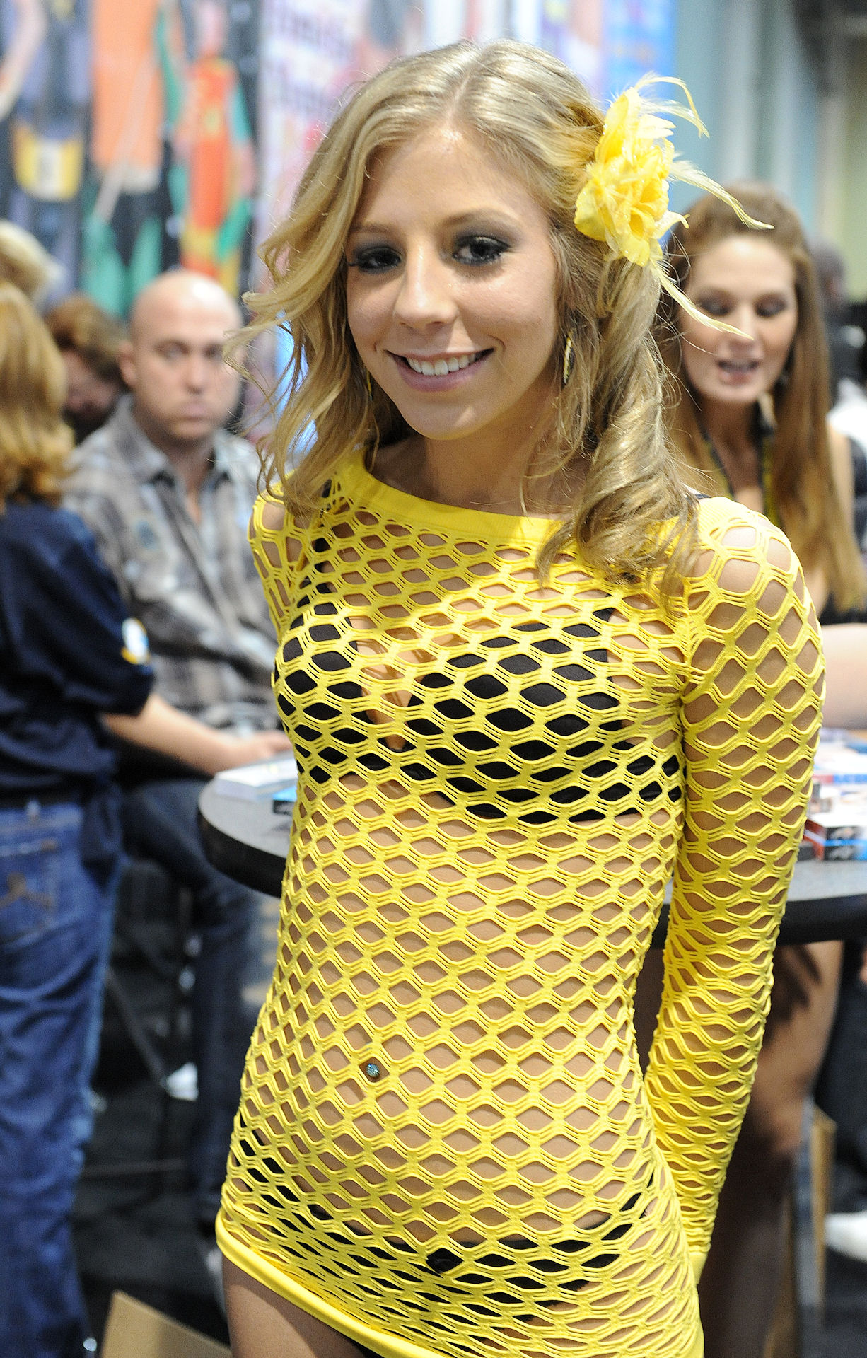 Chastity Lynn at AVN Adult Entertainment Expo 2011